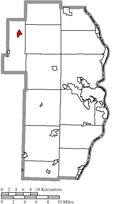 Map of the municipal and township boundaries of Jefferson County, Ohio, United States, as of the 2000 census, with the location of the village of Bergholz highlighted. Township borders are shown only in unincorporated areas in order to differentiate incorporated and unincorporated areas more clearly.